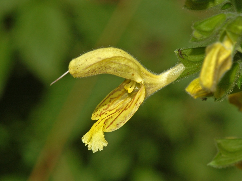 Salvia glutinosa - Parco dell'Antola, Genova, Italy